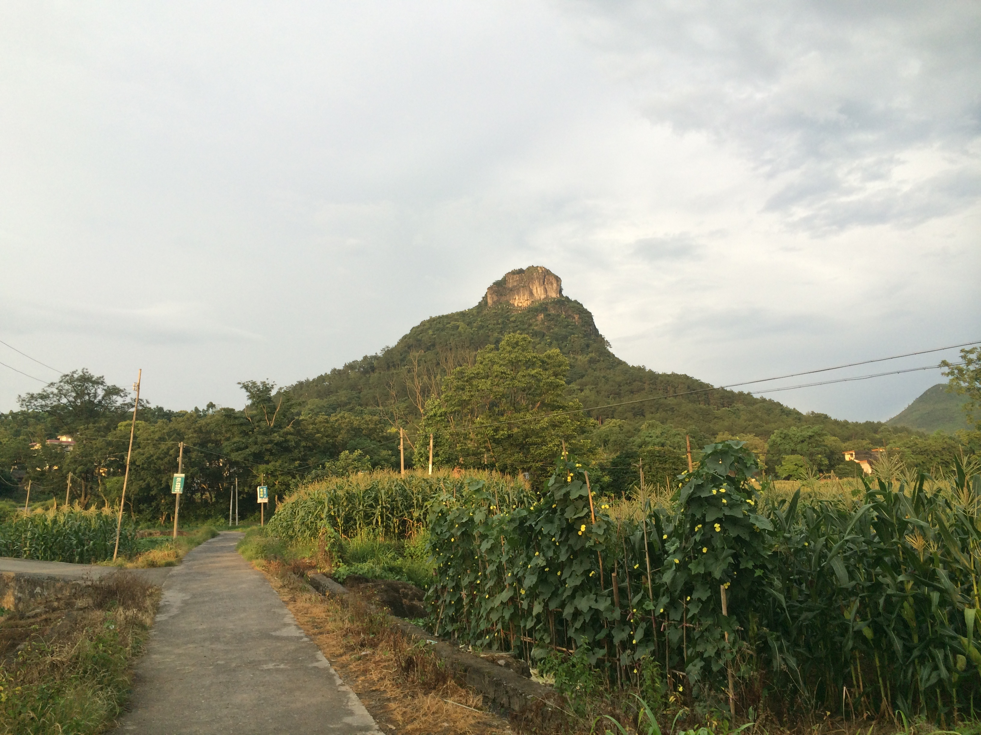 Lienchow, Kwangtung 粵語: 廣東連州巾峰山